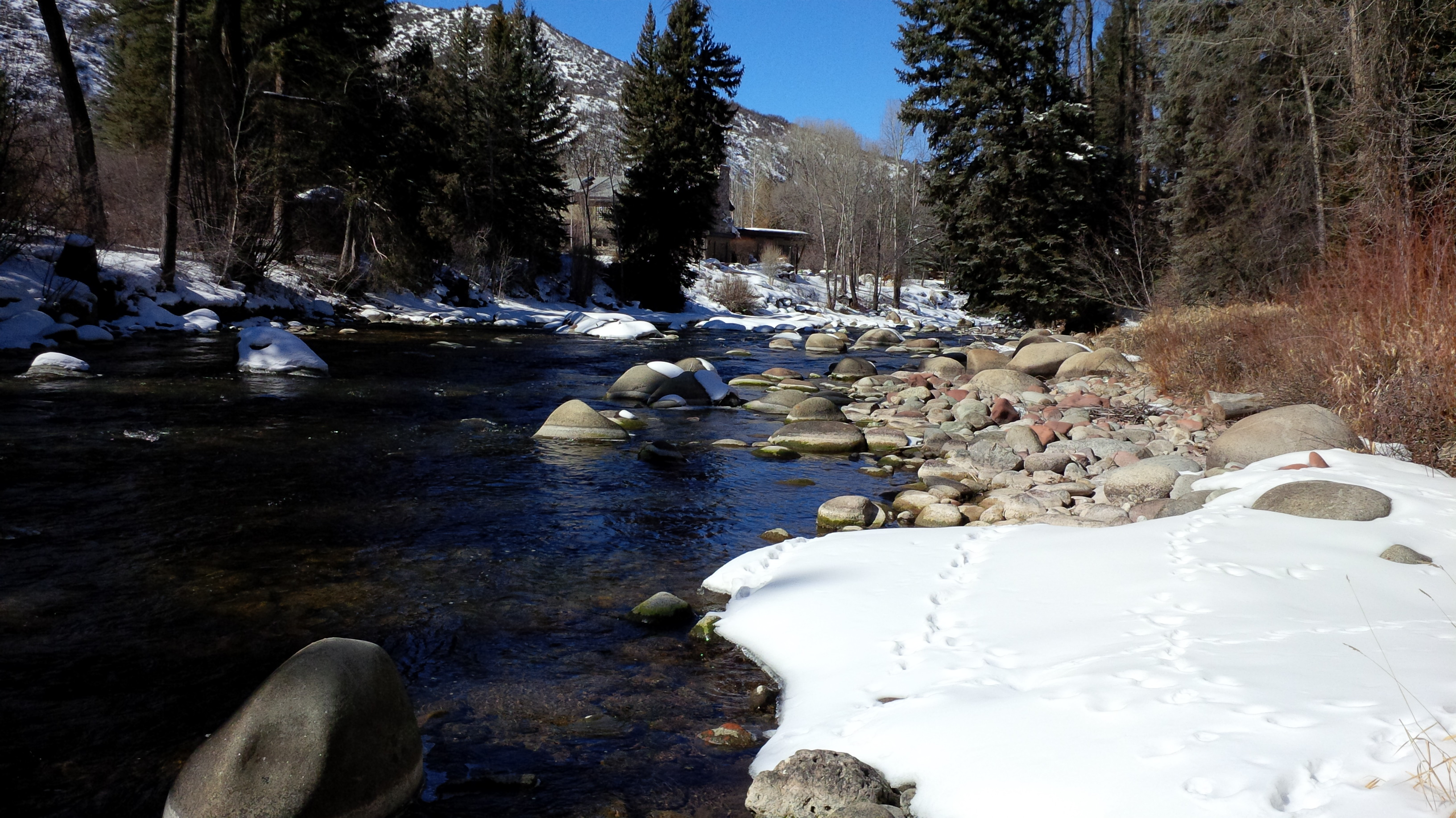 Picture taken in February 2013 from backyard in Woody Creek, Colorado facing the roaring fork River.